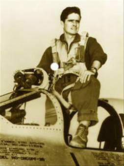 Maj. William T. Whisner became the first ace of the wing Feb. 23, 1952. He was the Commander, 25th Fighter-Interceptor Squadron. Major Whisner also was an ace in World War II. (Courtesy photo)